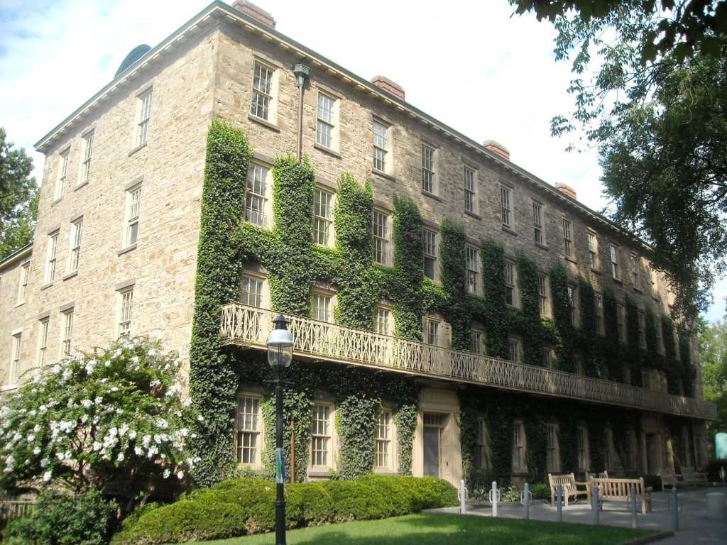 Nassau Hall, Princeton University, Princeton University campus Princeton